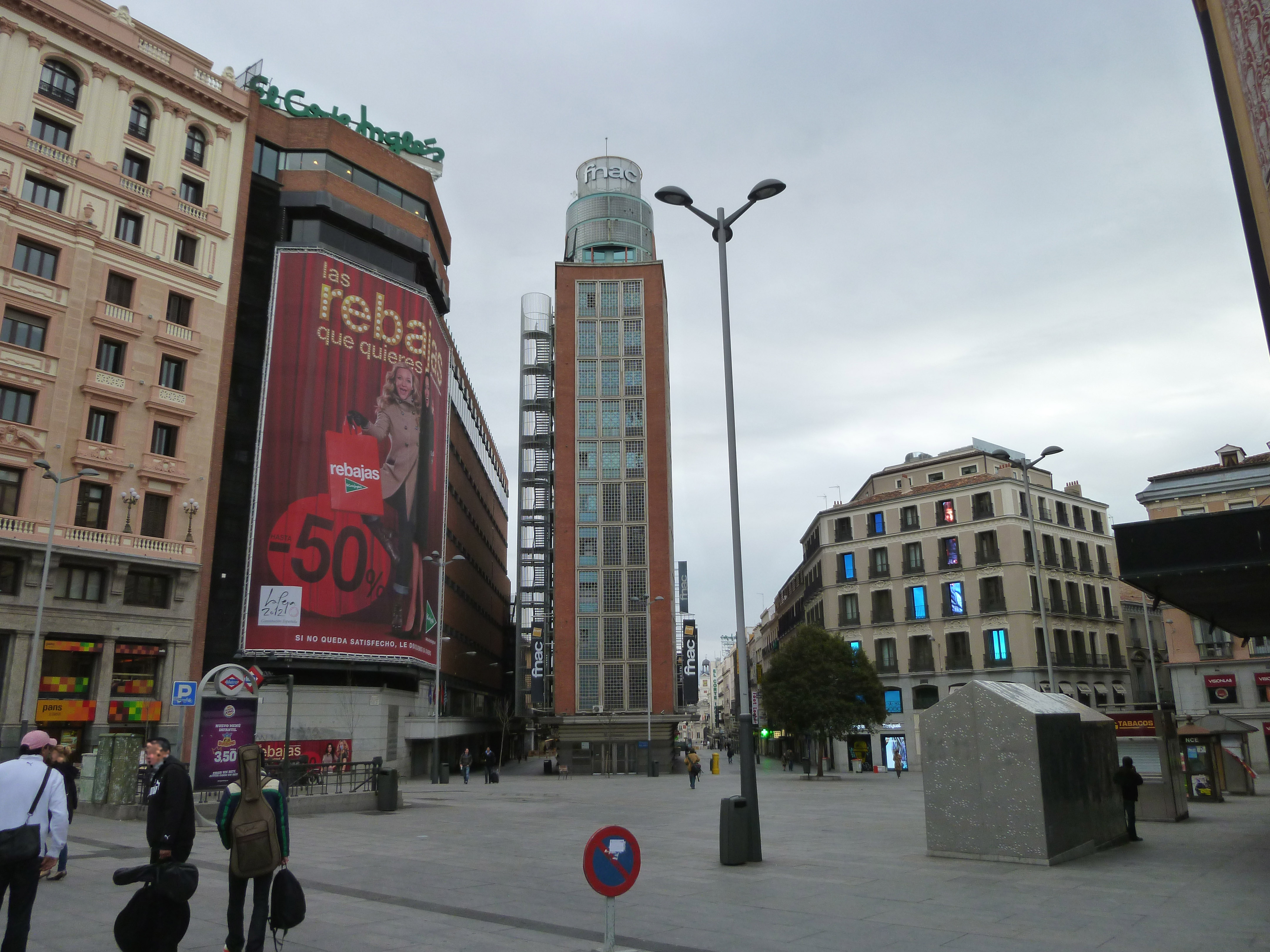 View of Plaza del Callao (square) in Madrid (Spain). In the background, Fnac building.